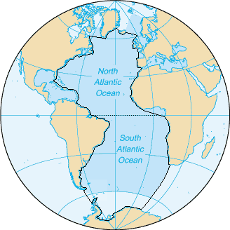 CIA map of Atlantic Ocean (File:Atlantic Ocean - en.png) with IHO boundaries [1]